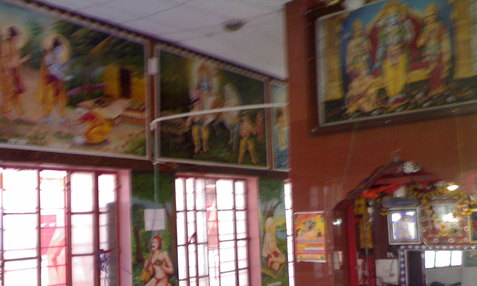 This photo show you paintings on walls of Rojhri temple.This photo is created by me(user:Shemaroo aka Sivender Singh, ) Shemaroo (talk) 15:57, 4 March 2011 (UTC)